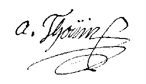 signature of André Thouin in 1781